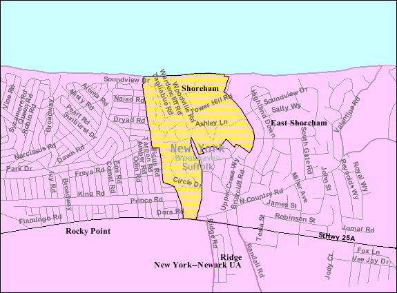 U.S. Census 2000 reference map for Shoreham